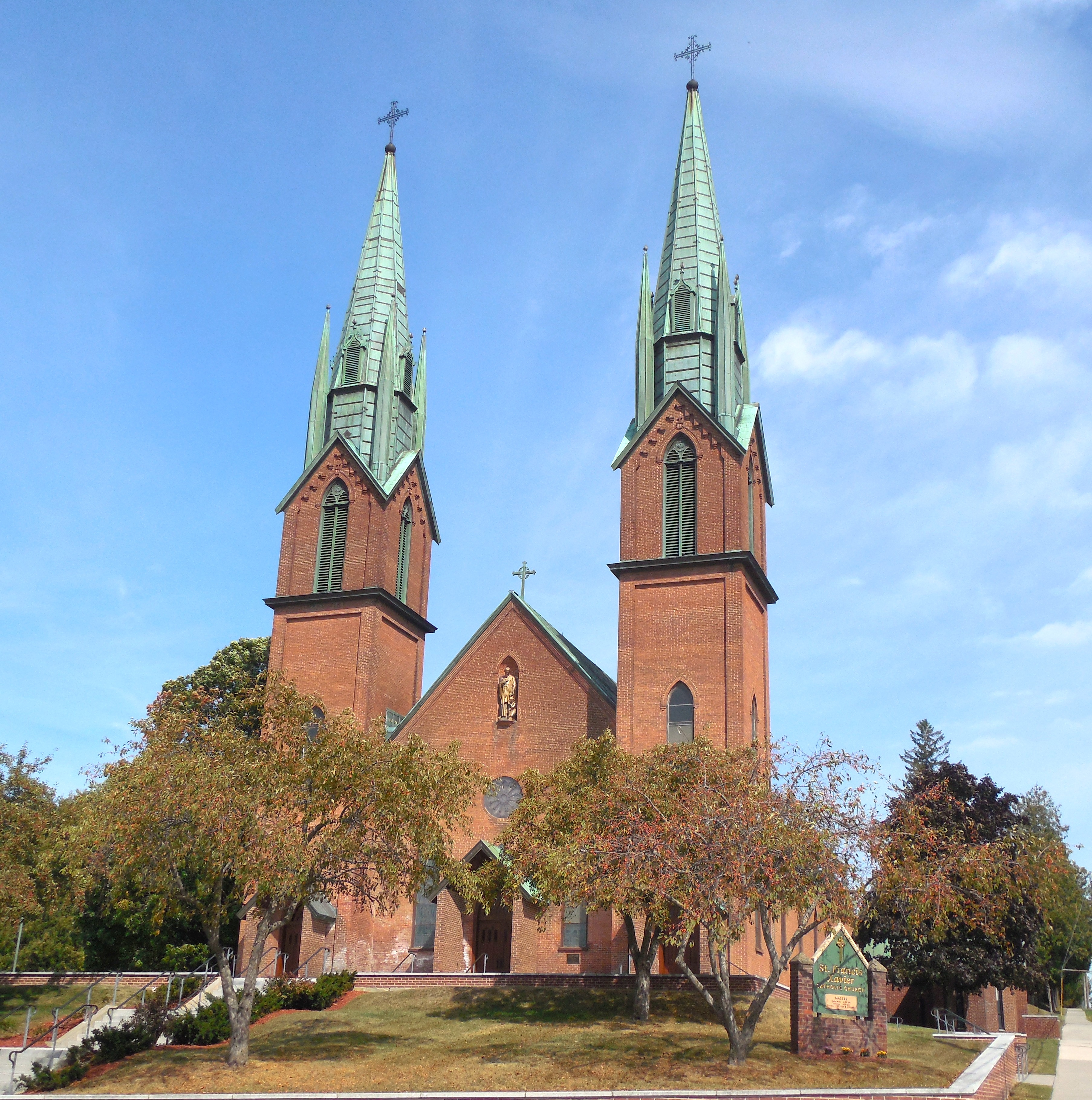 St. Francis Xavier Church, Winooski, Vermont. The Church was listed on the Vermont State Historic Register on 22 Nov 1993.